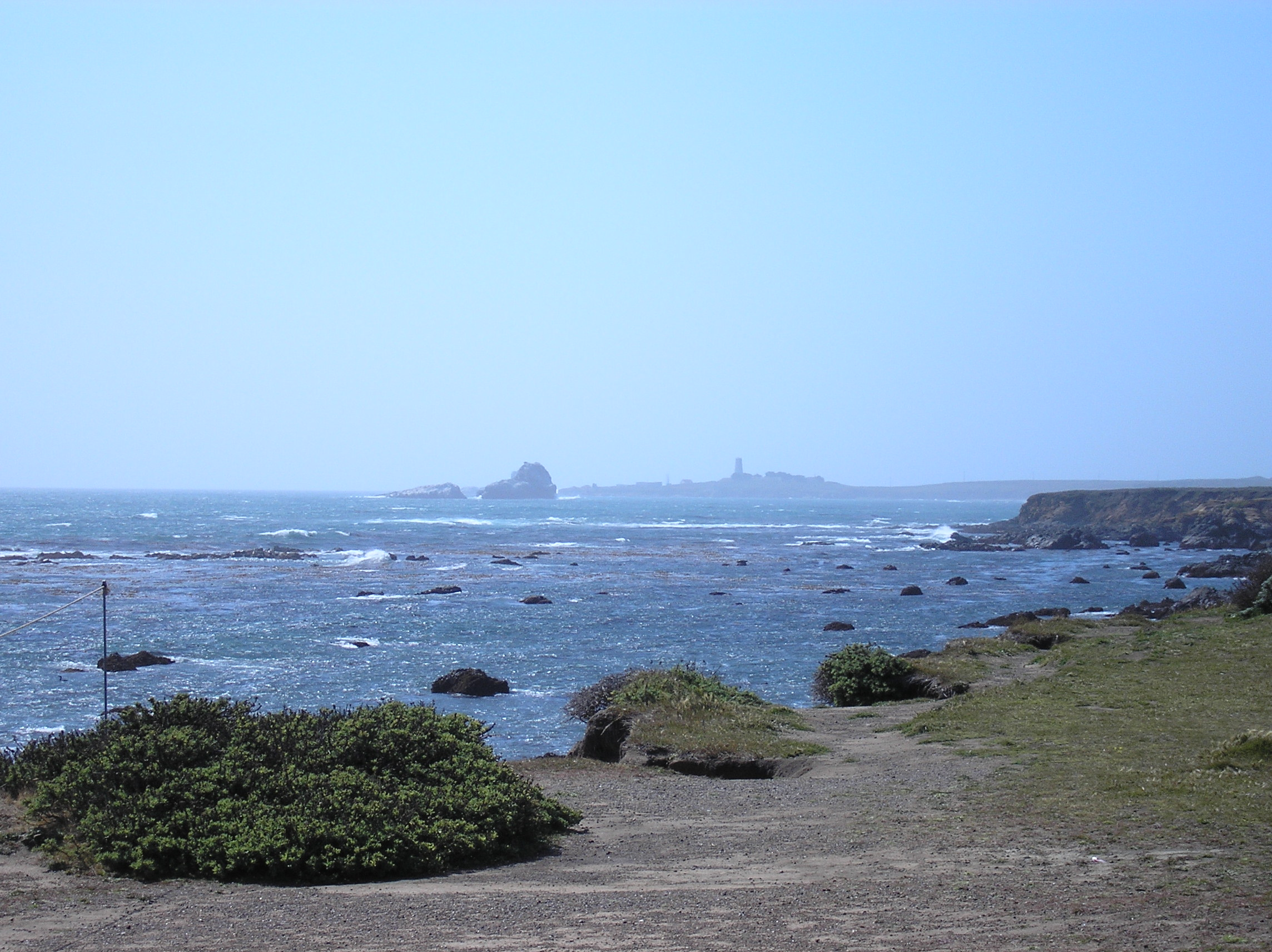 Pacific Coast off Point Piedras Blanacs/California with Point Piedras Blancas Lighthouse in the background (Vista Point at Pacific Coast highway)